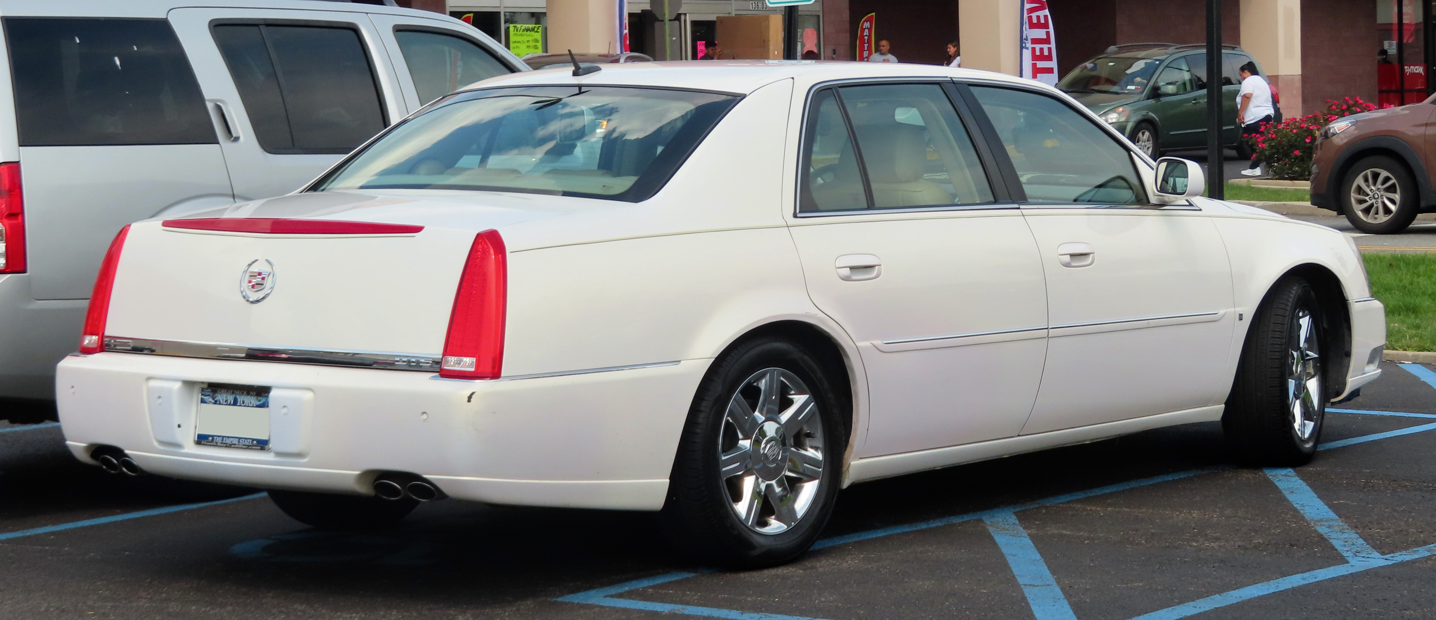 A 2006 Cadillac DTS photographed in College Point, Queens, New York, USA